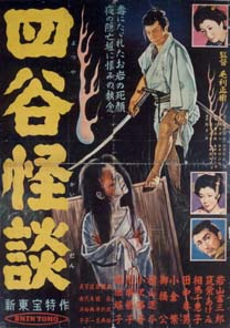 1956 Japanese movie poster for 1956 Japanese movie Yotsuya Kaidan (四谷怪談 Yotsuya Kaidan) aka Tokaido Yotsuya kaidan.